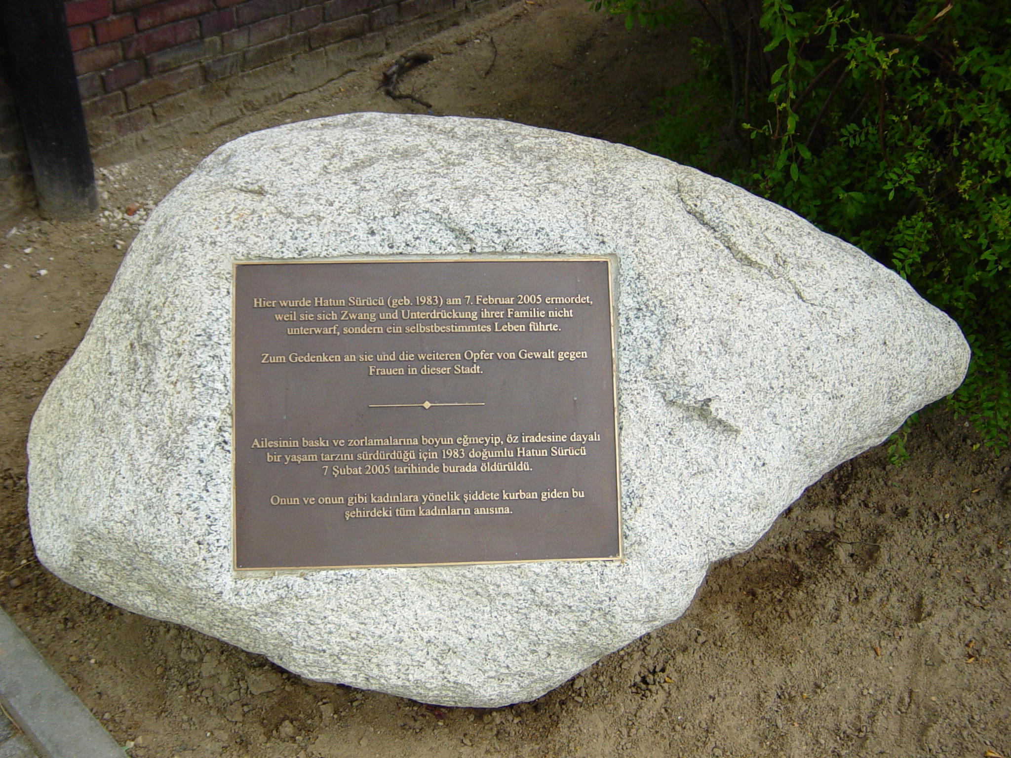 Memorial stone for the murdered Hatun Sürücü corner Oberlandstrasse / Oberland garden. The panel contains an incorrect birth year (1983 instead of 1982). The error has been corrected.